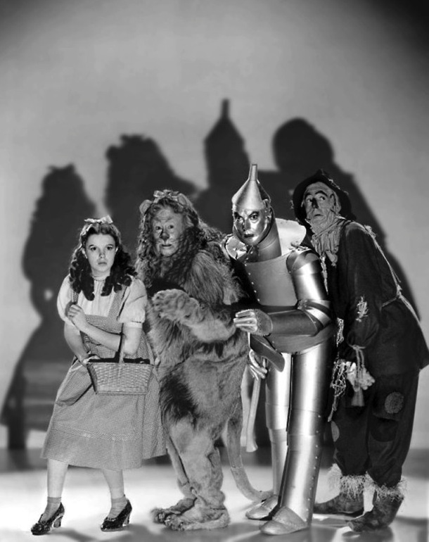 Publicity photo of American entertainers; (L–R) Judy Garland, Bert Lahr, Jack Haley and Ray Bolger promoting the Tuesday, March 7, 1972 NBC broadcast of the 1939 MGM feature film The Wizard of Oz.